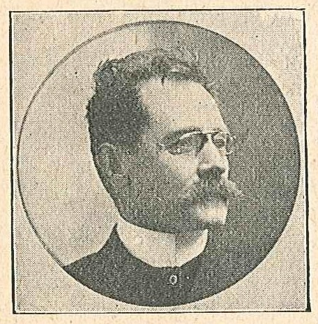 Klas Hugo Bergendahl (1851-1920), Swedish mayor (of Växjö) and member of parliament.